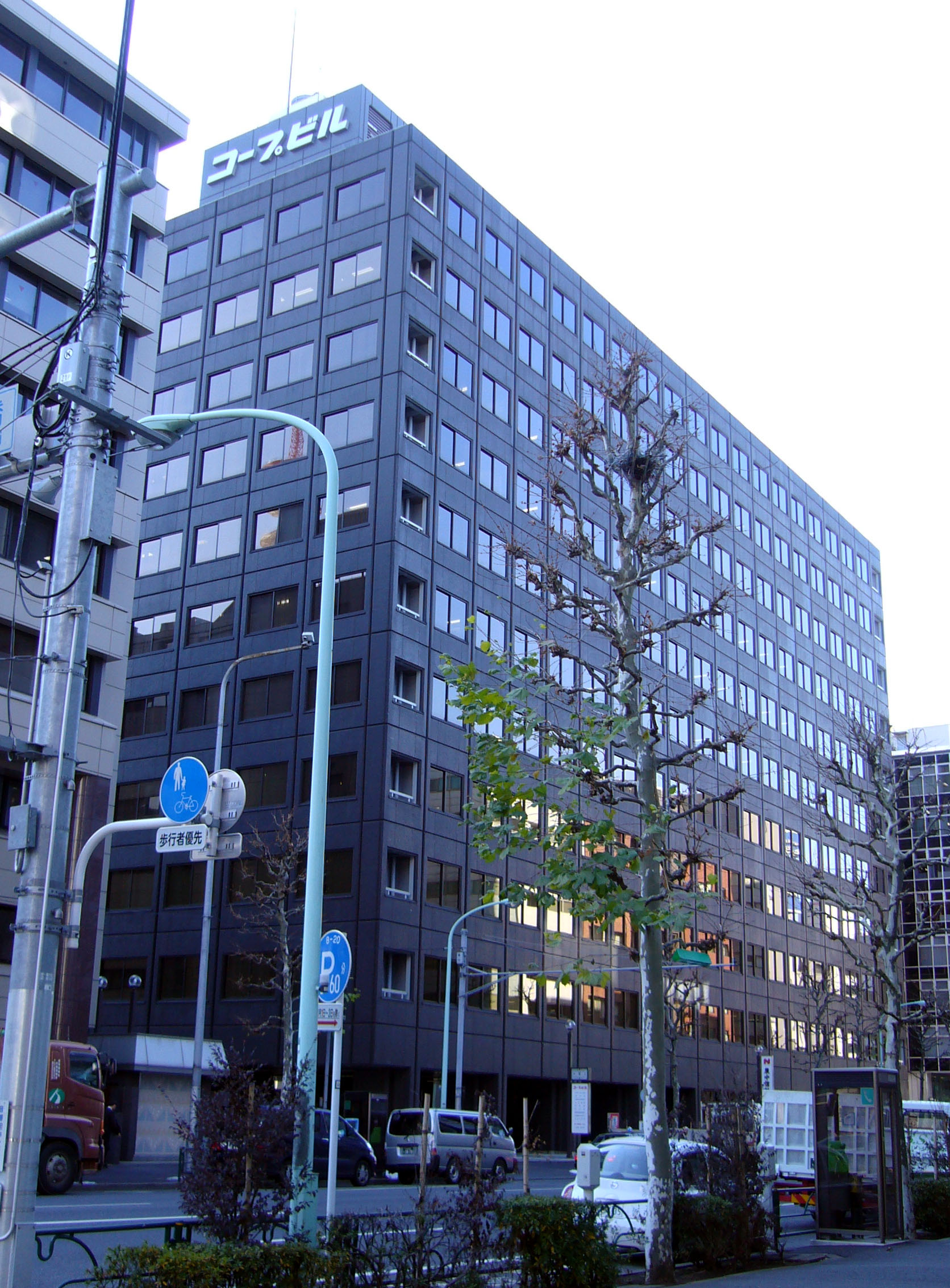 Coop Building (Office building in Tokyo, Japan)